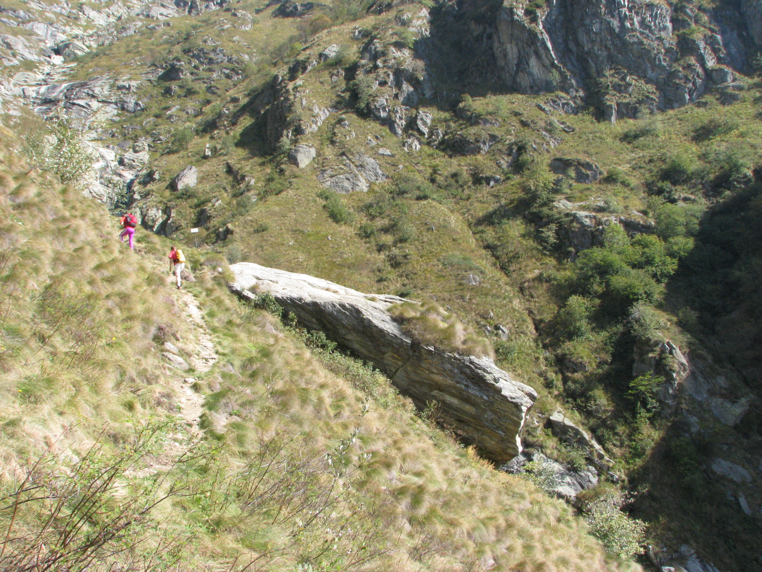 The big stone named 'Pera dij Crus', covered by prehistorical engravings